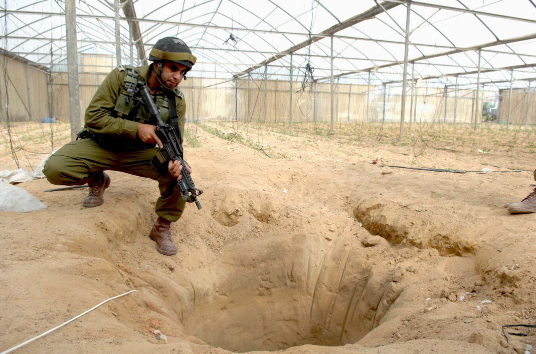 October 18, 2006 Five tunnels were uncovered during a counter-terrorism operation designated to thwart weapons smuggling from Egypt to Gaza through the Philadelphi Route, in southern Gaza.